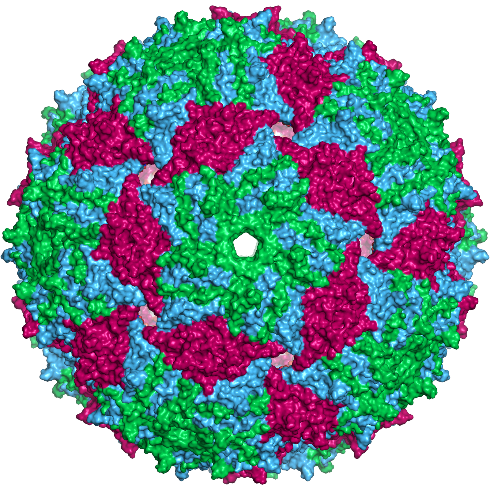 Cartoon representation of the entire bacteriophage MS2 protein capsid (pdb id 1AQ3). The three quasi-equivalent conformers in the structure are labelled blue (chain a), green (chain b) and magenta (chain c). The view is approximately down an icosahedral 5-fold symmetry axis